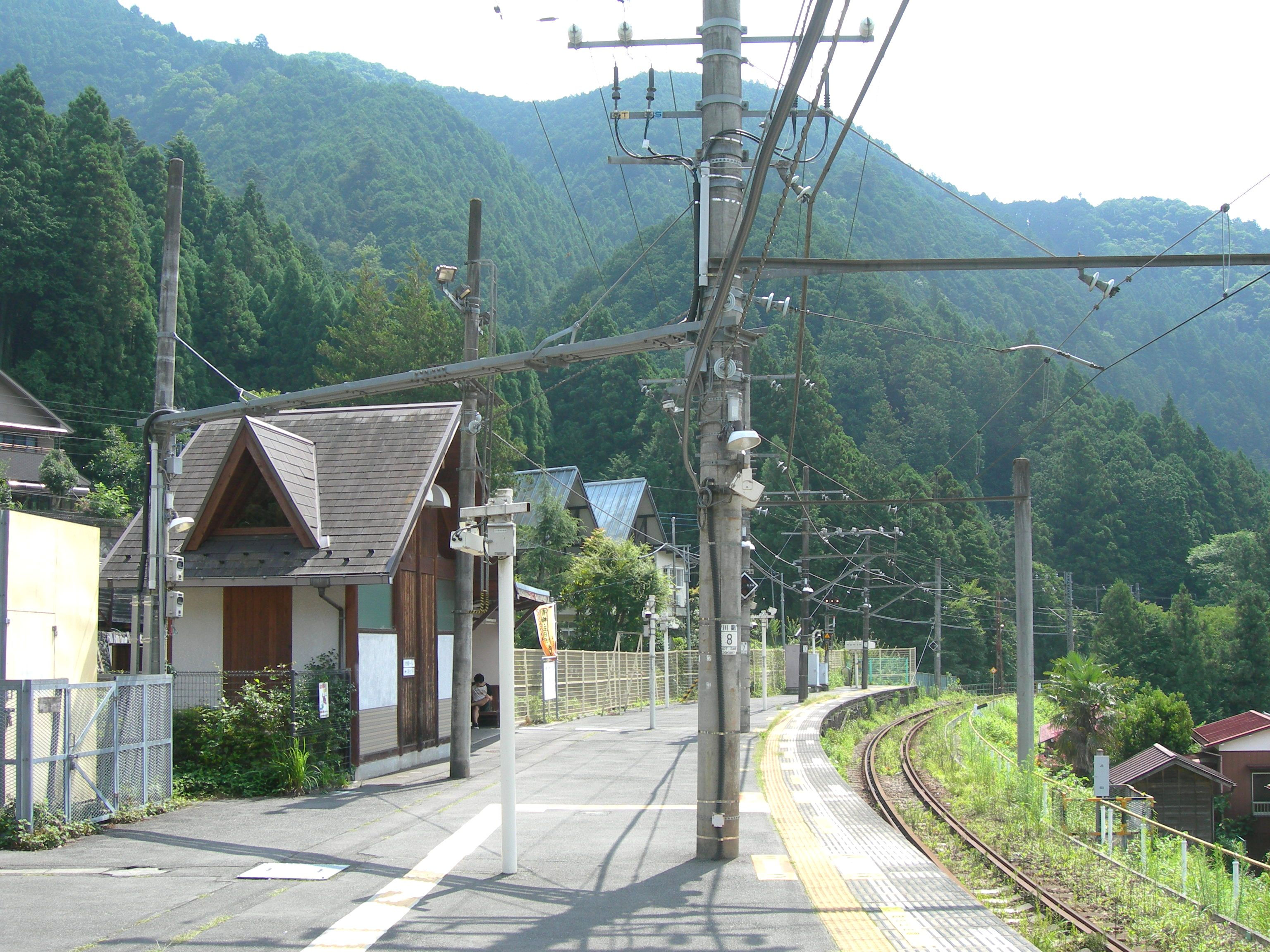 Kawai Station platform